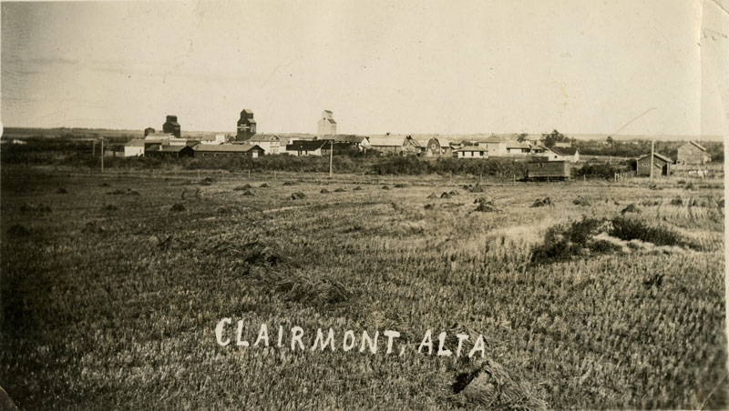 1 photograph; b & w; 5 x 7 in. Clairmont, Alberta ca. 1917, when there were only three elevators. From left, buildings are identified as the Community Hall, Cady & Evans Lumber Yard, Evans’ big house with the dormer window, Hardware Store with the big window. The Barn behind was owned by Evans, and the tall house was George White’s. Custodial History: This photograph was given to Beth Sheehan by the Spencer family.